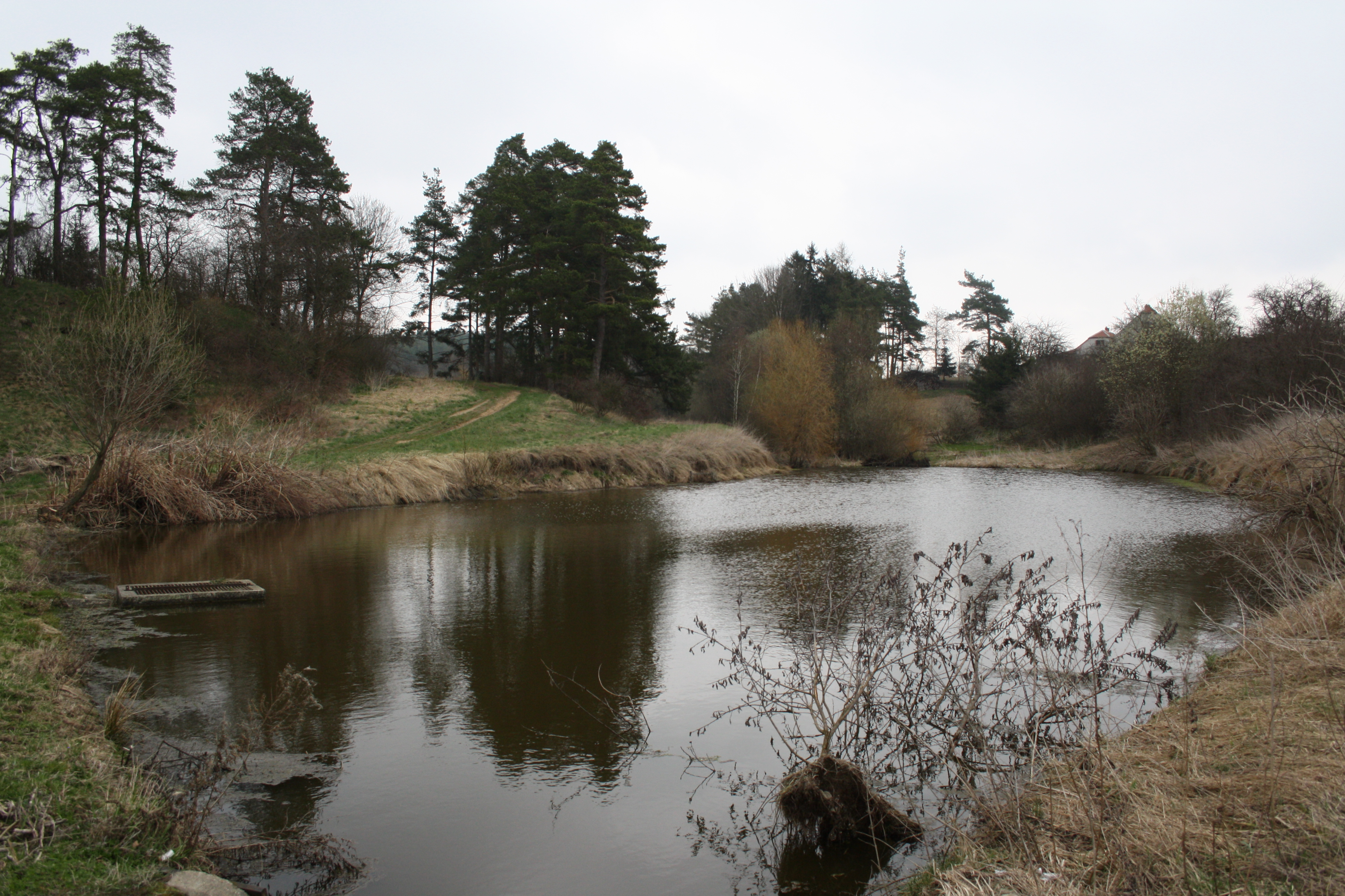 Pond in Mihoukovice, Třebíč District.